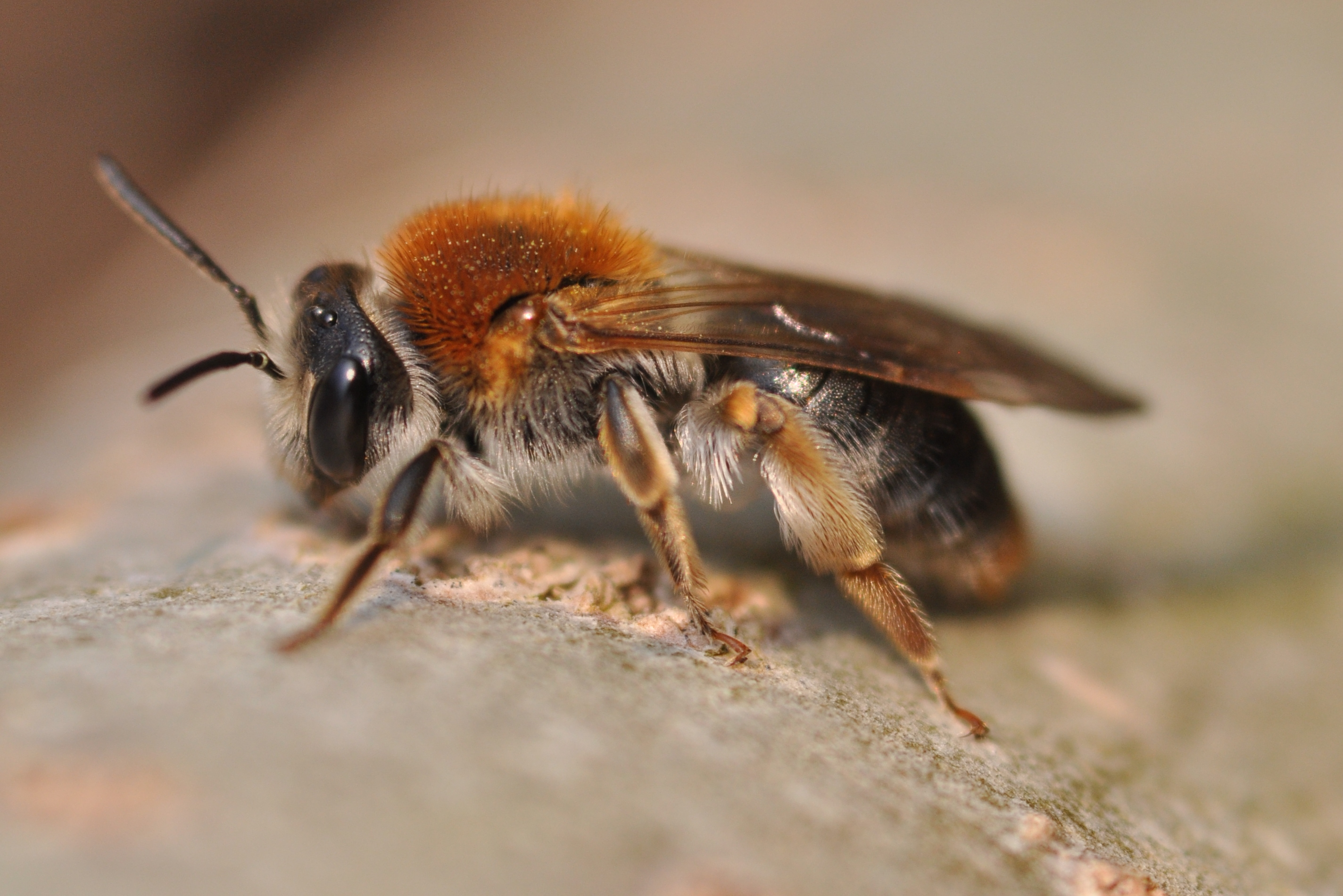 Early Minig Bee Andrena haemorrhoa female in Kirchwerder, Hamburg.